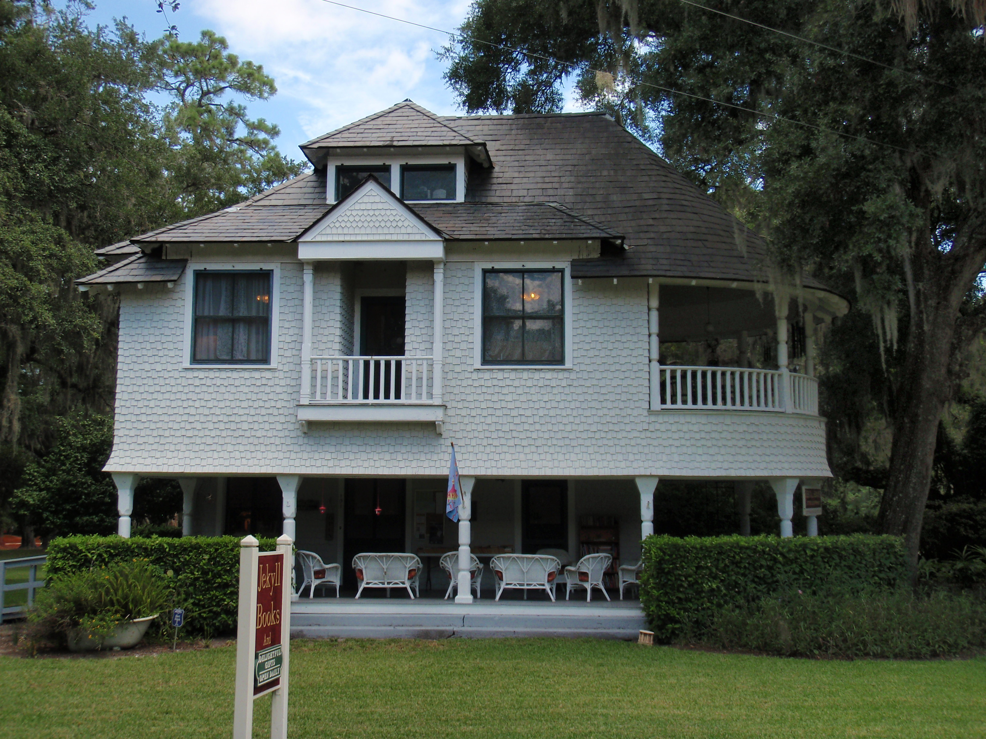 Walter Rogers Furness cottage (1891), 101 Old Plantation Road, Jekyll Island, Georgia, Furness, Evans & Company, architects. Walter Furness was a partner in the firm and probably designed his own house.